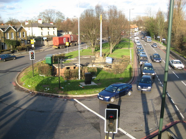 A3 Robin Hood Roundabout It's a roundabout, Jim, but not as we know it..., since you can't drive round it, at least not since 1995 can you have done. Actually this is now just the junction between the A3 and the A308 Kingston Vale. In the photo, which was taken from the footbridge, the southbound A3 is on the right, the queuing traffic is waiting to turn south westwards on the A308 to the lower left and the northbound A3 is on the upper left. The roundabout marks the start of the Kingston Bypass, opened in 1927. Formerly the A3 followed the current route of the A308 through Kingston upon Thames. Plans are afoot to improve access for equestrian users between Richmond Park to the left and the tracks to Wimbledon Common on the right. Apparently at present they have to rely on the courtesy of drivers on the A3 to let them pass...! The Robin Hood Gate entrance to Richmond Park is in front of the white house by the red truck trailer. For aficionados of such things a sewer vent pipe, grey with a yellow top, forms the centrepiece of the roundabout. It is surrounded by a motley collection of utilities' cabinets.